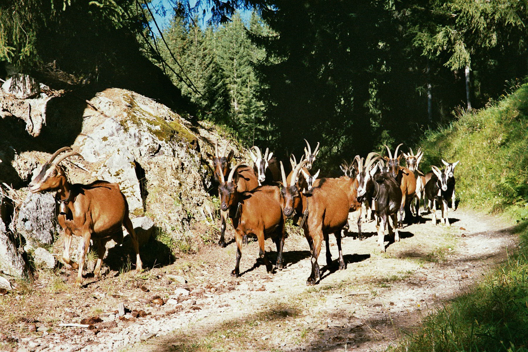 Gämsen